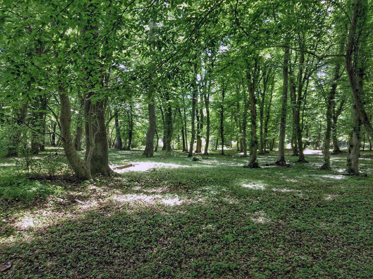 Samur forest, Dagestan